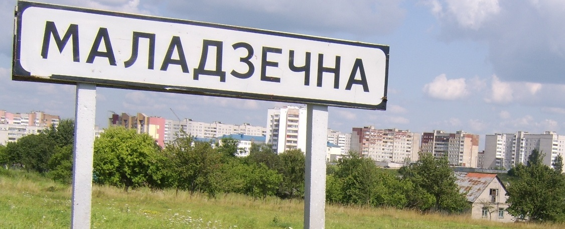 Road to Maladziečna from the side of Haradok, Maladziečna district, Belarus